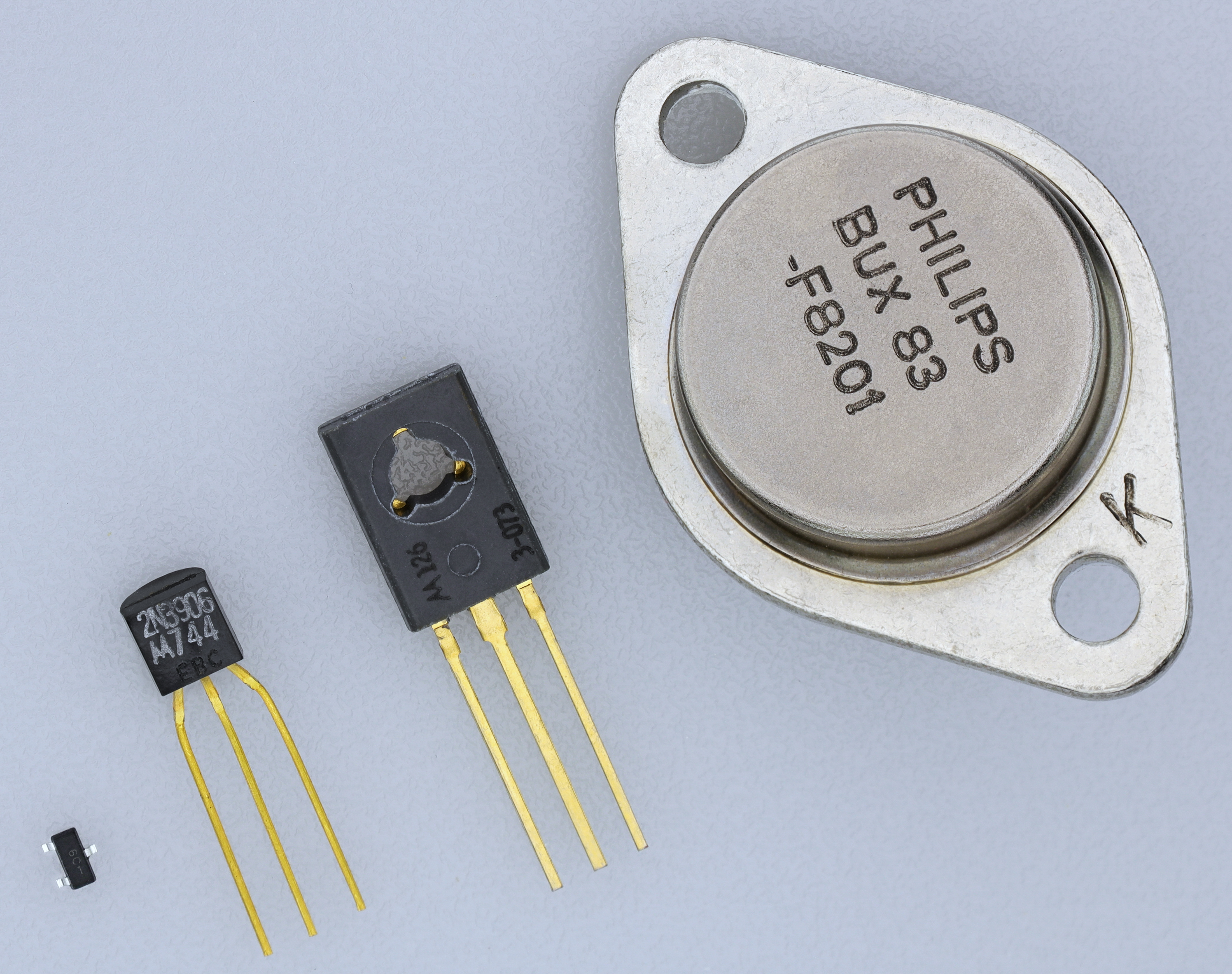 Assorted discrete transistors. Packages in order from top to bottom: TO-3, TO-126, TO-92, SOT-23.